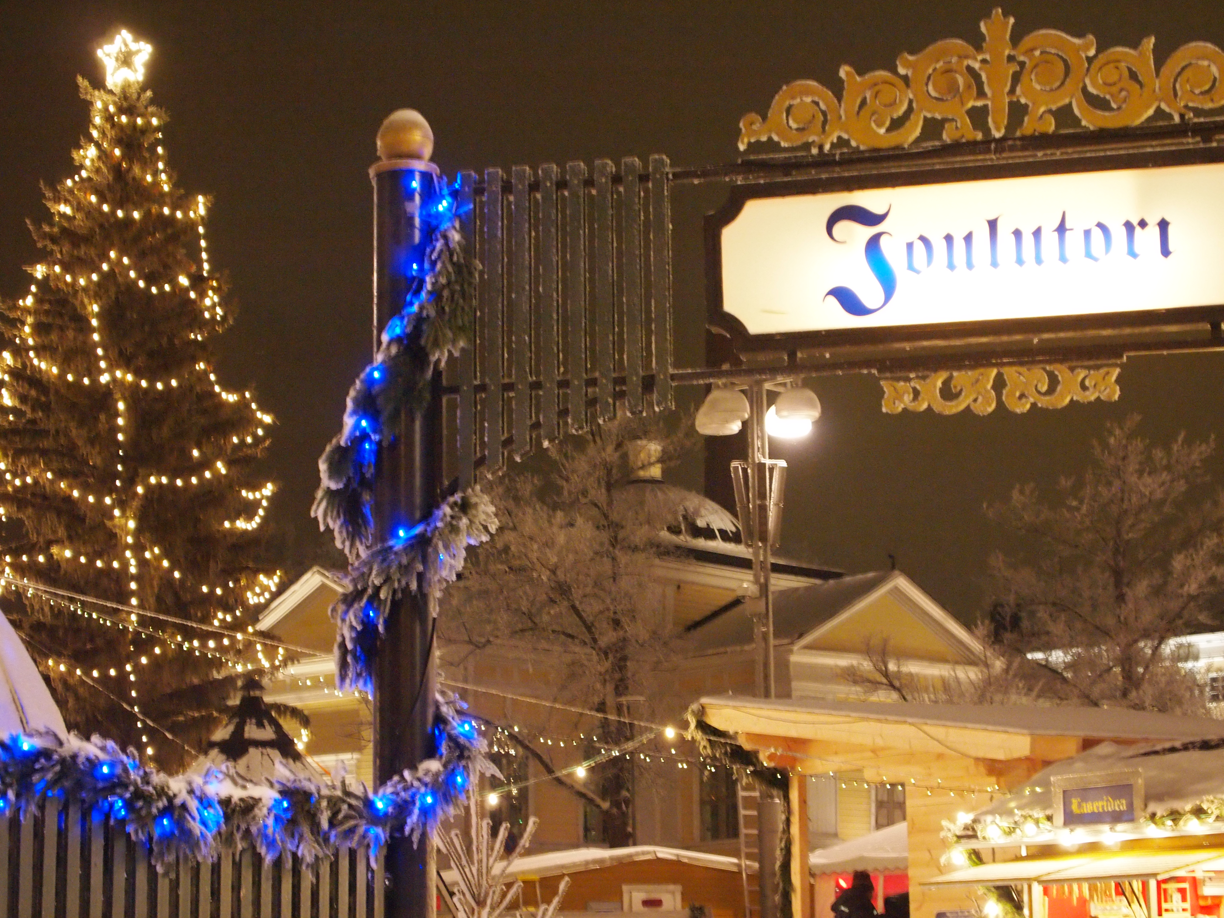 Christmas tree behind the Christmas market